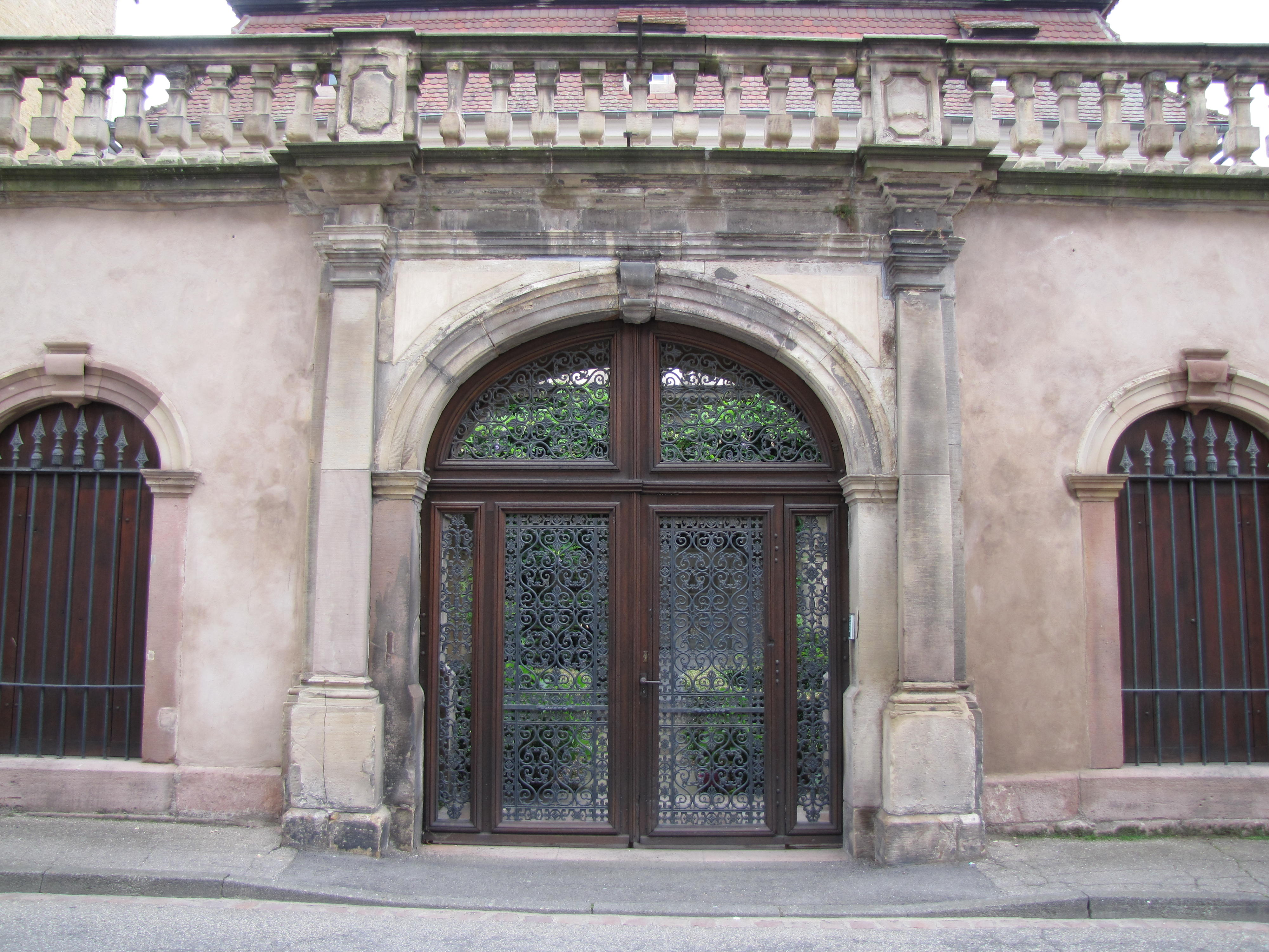 Alsace, Bas-Rhin, Sélestat, Hôtel de Chanlas (XVIIIe), 1 rue des Franciscains. It is indexed in the Base Mérimée, a database of architectural heritage maintained by the French Ministry of Culture, under the references PA00084984 and IA00124639 .